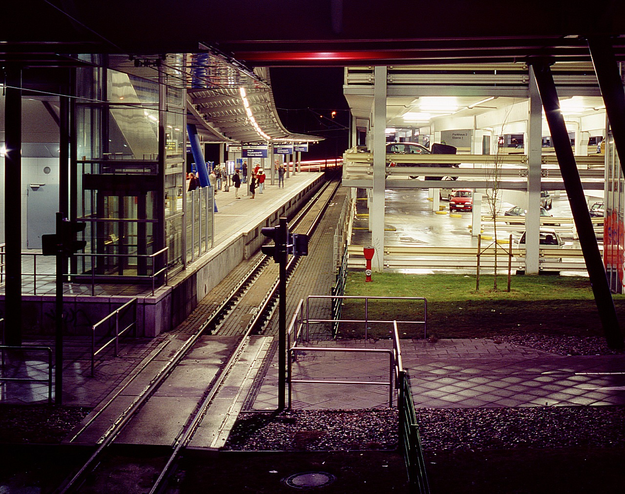 Tram station and parking lot at the university of Bielefeld. Taken with an Arax 88 MLU with Carl Zeiss Jena Flektogon 50/4.0 on Fuji Provia 100F slide film.